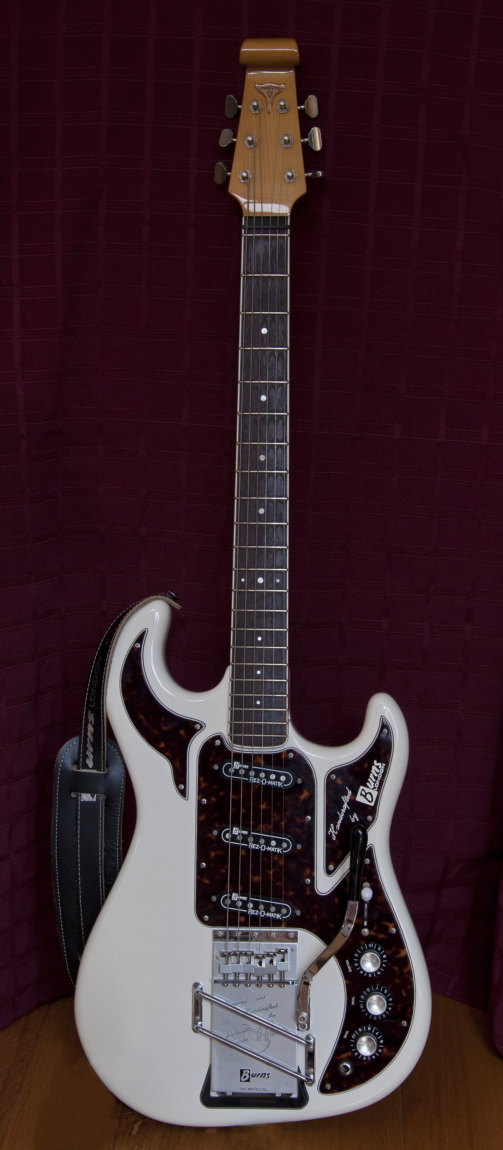 A Burns Marvin 1964 (reissued in 2004)